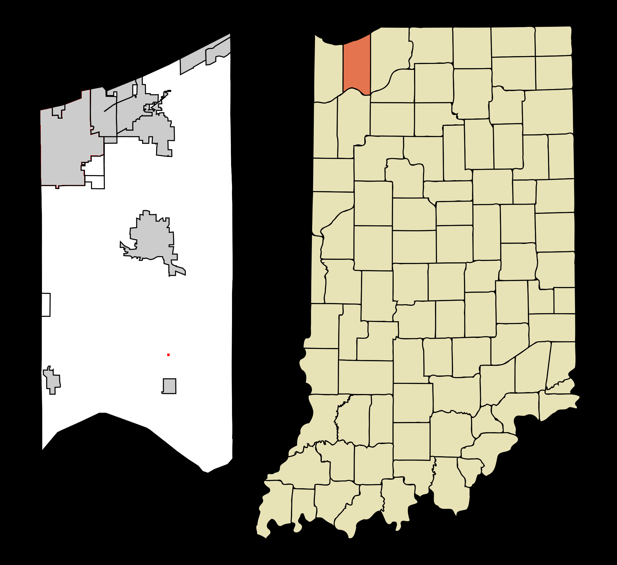 Map of Porter County in Indiana with an inset showing the location of the community of Tassinong. Modifed from the Wiki Commons file: Porter County Indiana Incorporated and Unincorporated areas Portage Highlighted